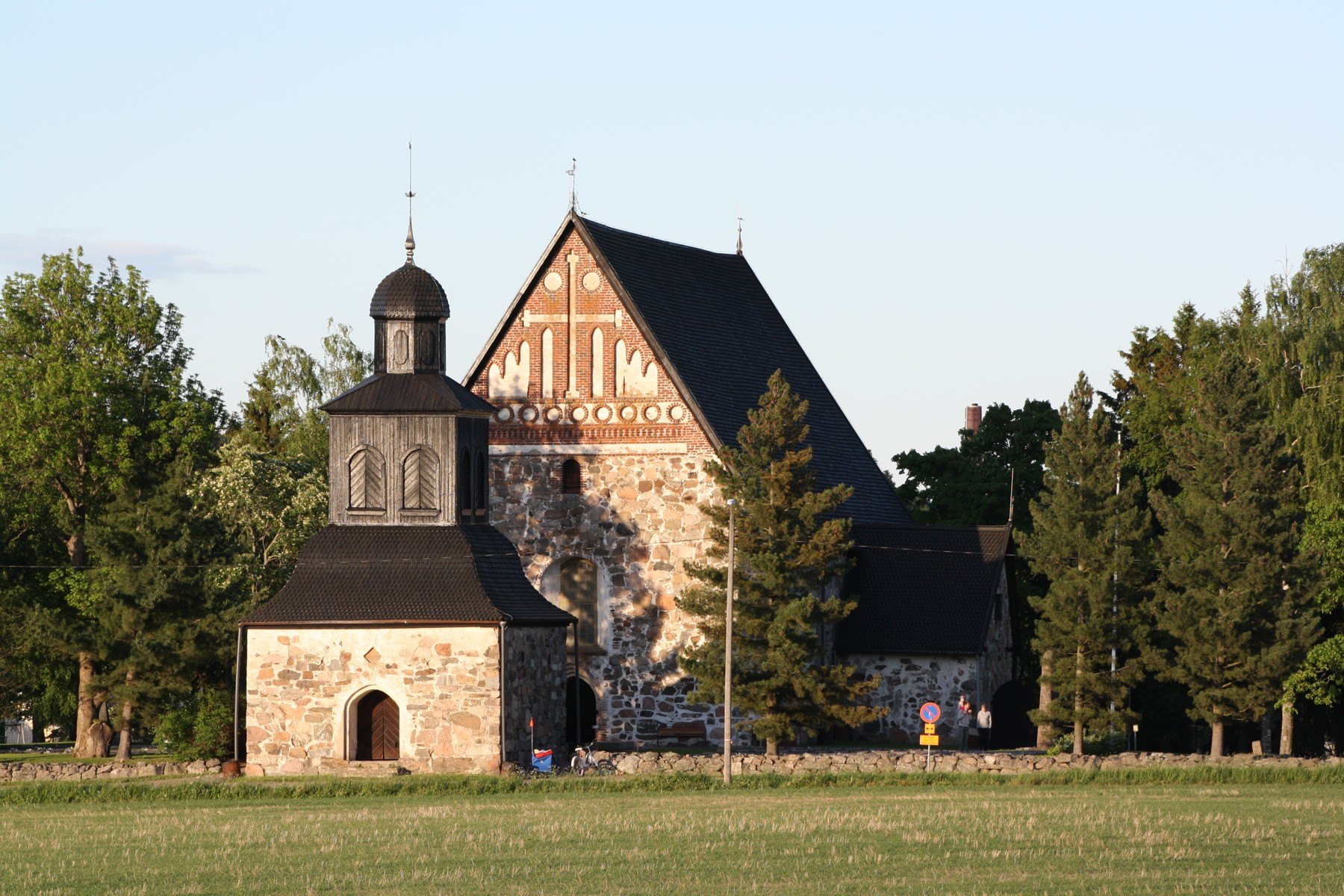 Sipoo old church, Sipoo, Finland.